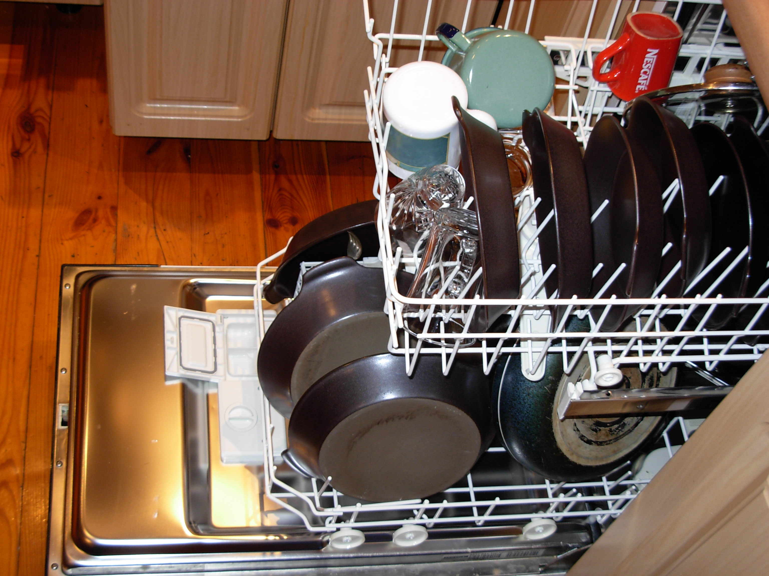 Photo by myself. Dishwasher